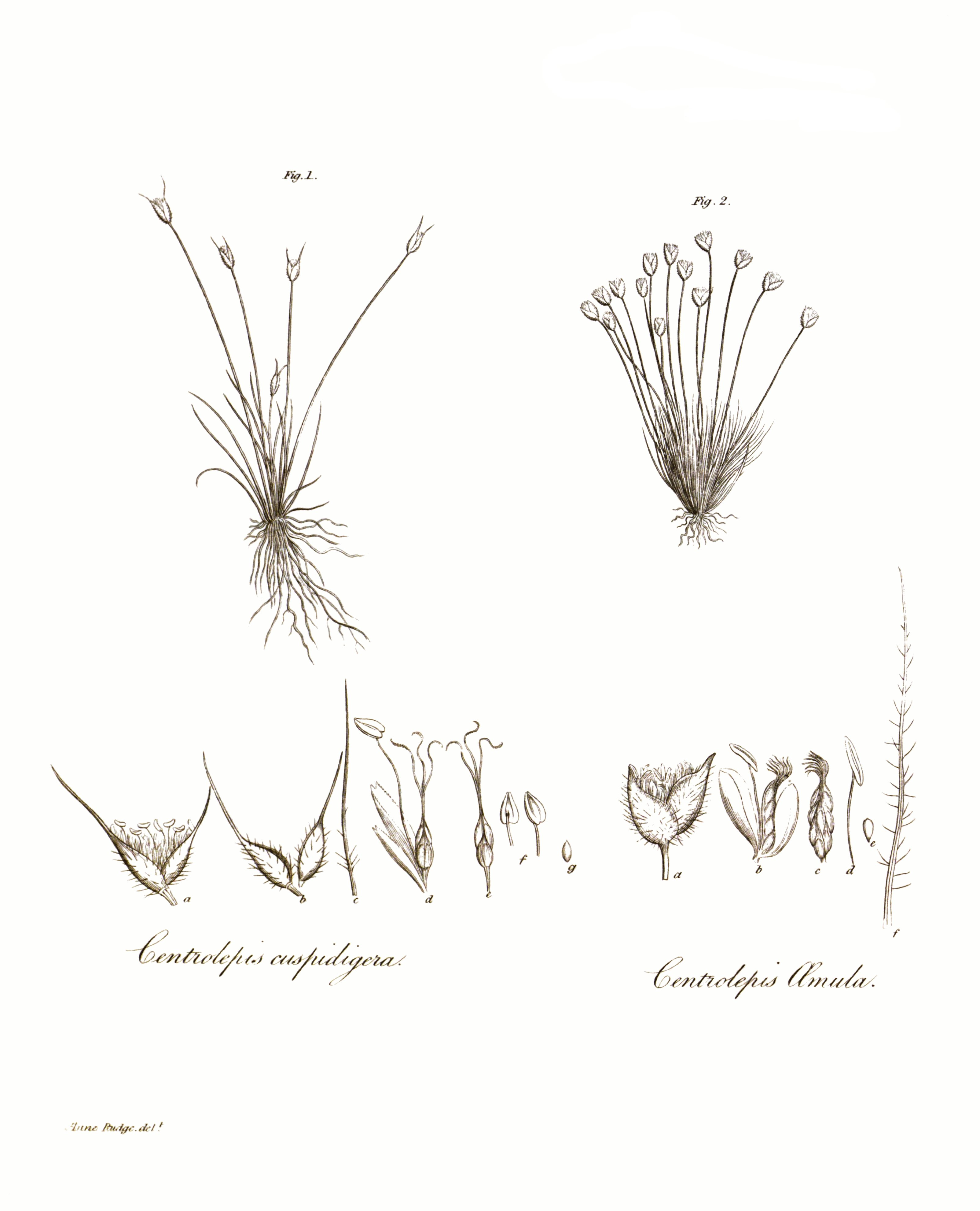 Illustration of Centrolepis cuspidigera and Centrolepis amula and a page from Volume X of Transactions of the Linnean Society of London, published in 1811.